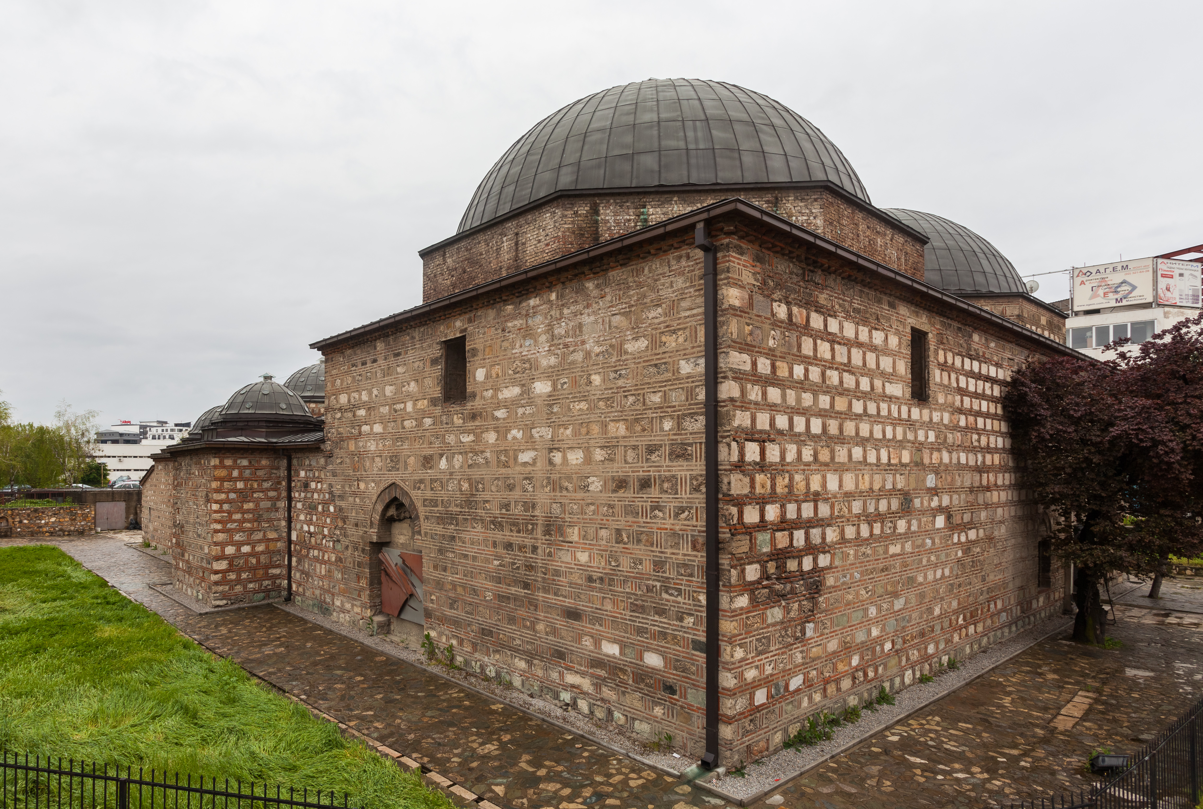 National Art Gallery, Skopje, Macedonia